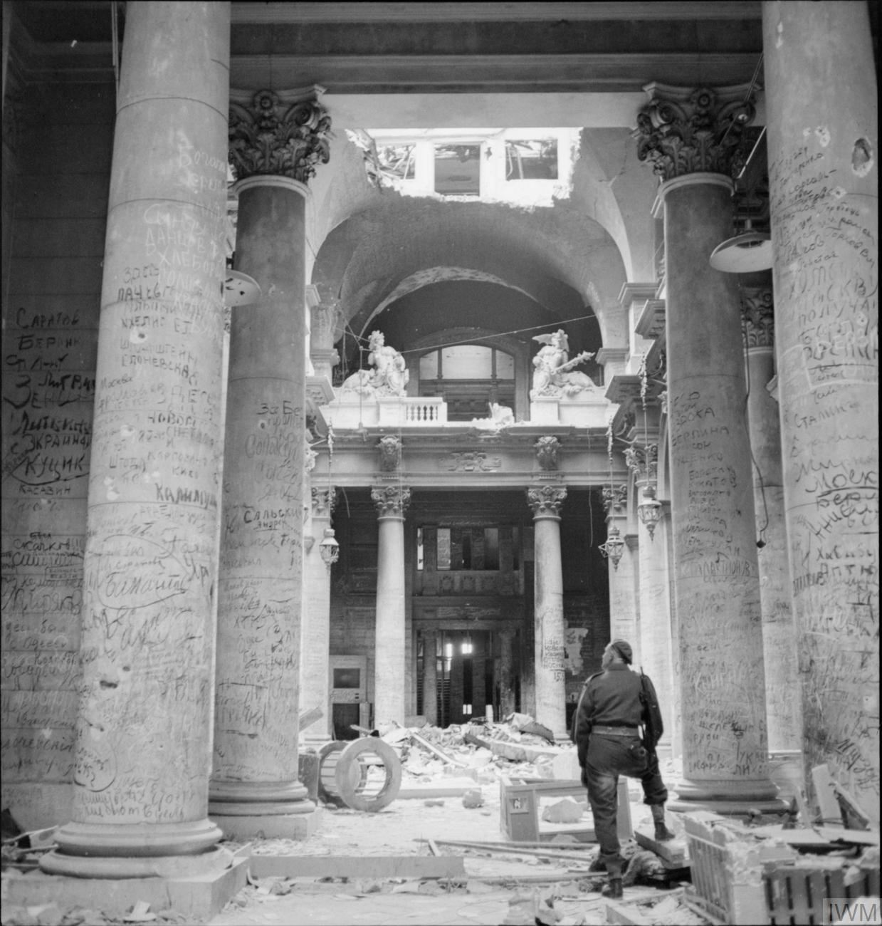 On 3 July 1945, graffiti left by Soviet soldiers covers the pillars inside the ruins of the German Reichstag building in Berlin. A British soldier is standing among the ruins and looking at those pillars.